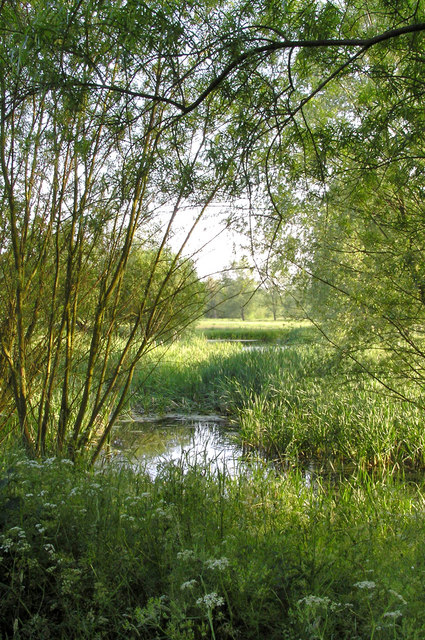 Deepest Suffolk. This is the English countryside at its best, and just 200 yards from a good pub!